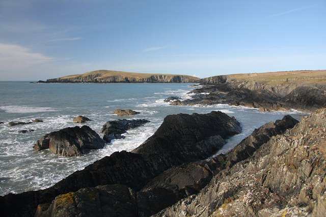 Craig y Gwbert This view towards Cardigan Island must be one of the finest in golf; it is taken from the 7th tee of Cardigan Golf Club. The short par three 7th hole takes in the whole of the peninsula of Craig y Gwbert.